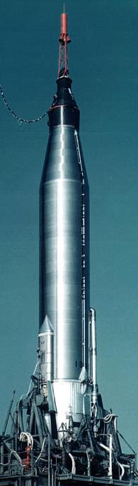 Mercury Atlas 9 rocket and capsule on pad NASA public domain image from Cropped.thumb|left|full-sized NASA image LOC-63C-1556